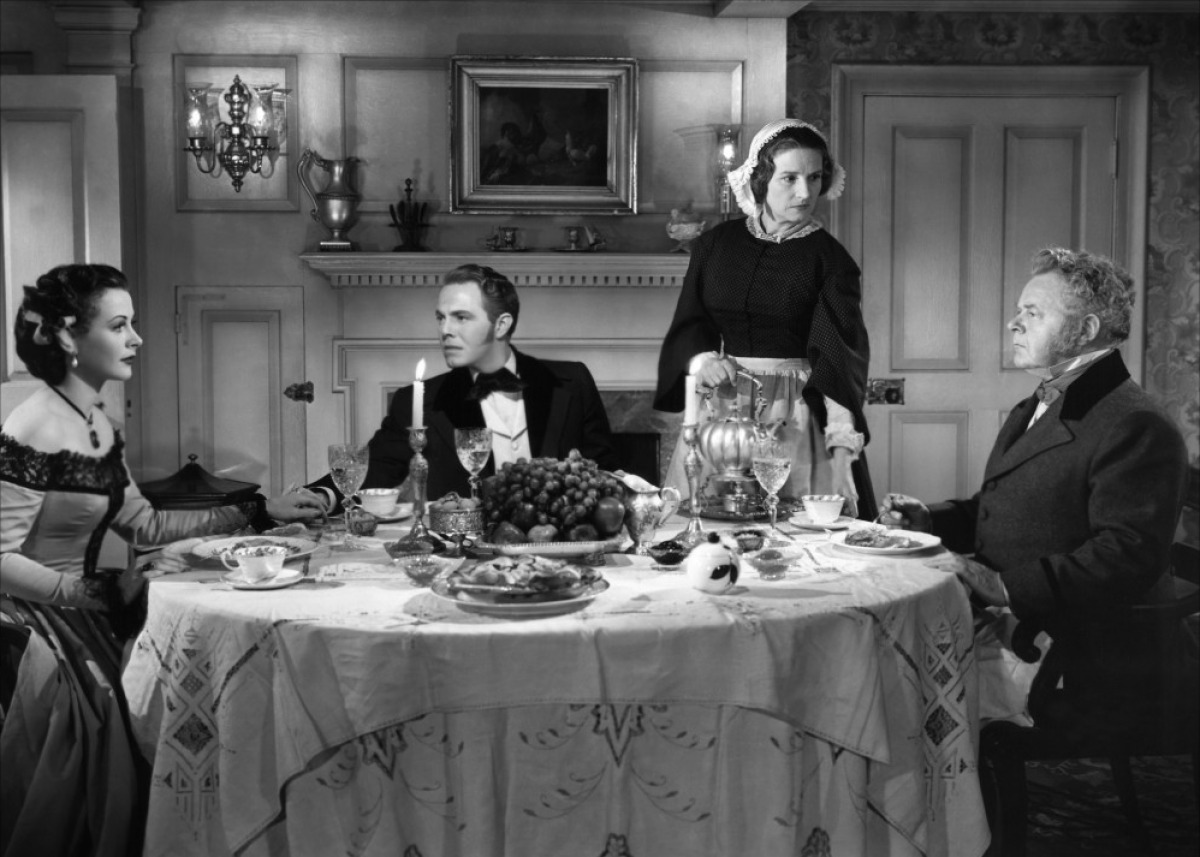 L. to R. : Hedy Lamarr, Louis Hayward, Kathleen Lockhart & Gene Lockhart in The Strange Woman - cropped screenshot